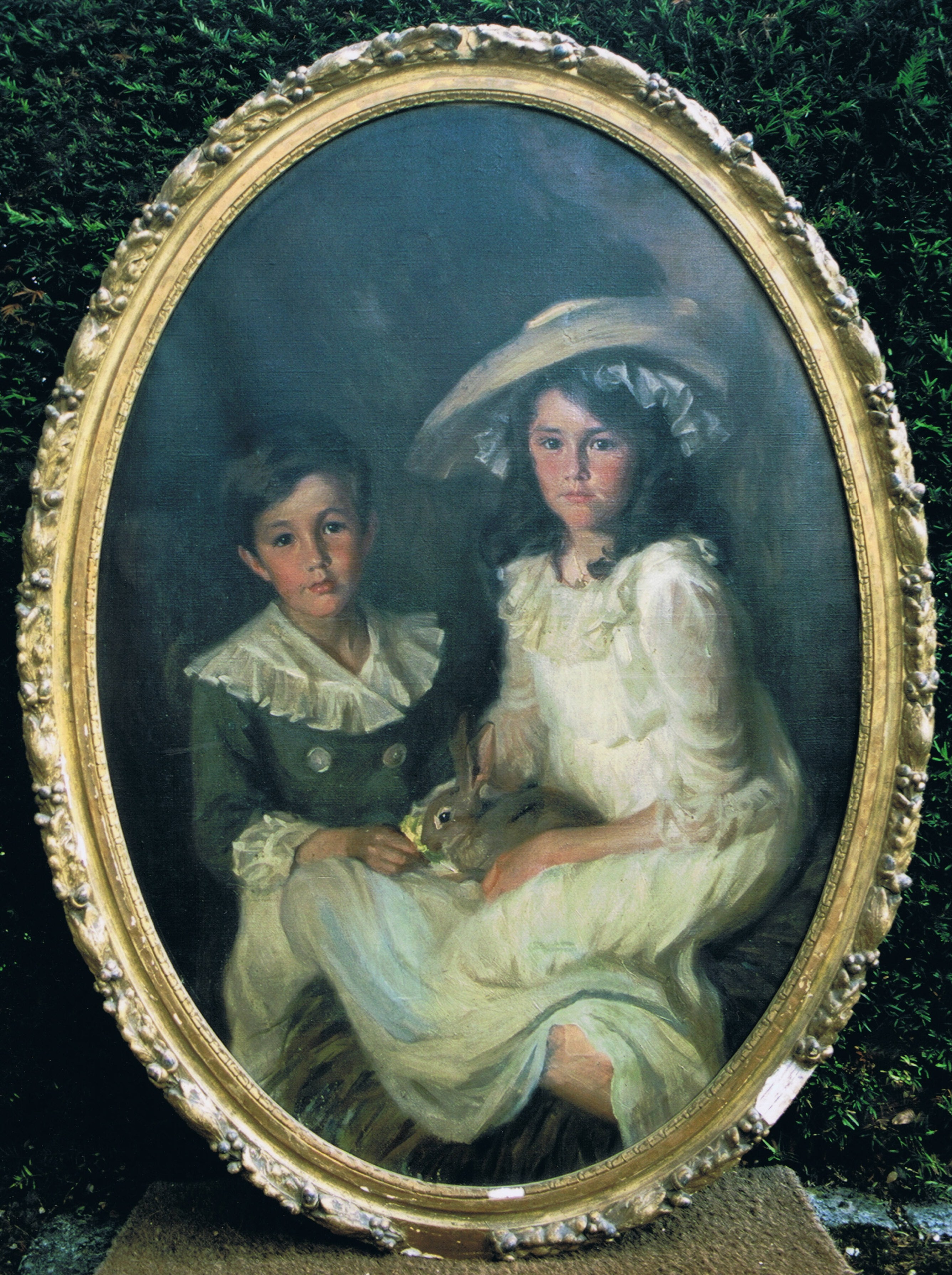 Lydia Field Emmet's (1866-1952) oval portrait of two members of the Cross family, Newport, Rhode Island, 1903.(photo: R. de Salis, July, 2007)Rodolph 10:32, 1 November 2007 (UTC)